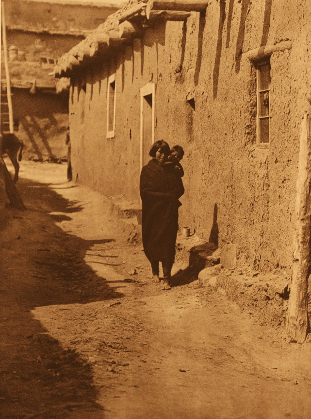 Zuni street scene